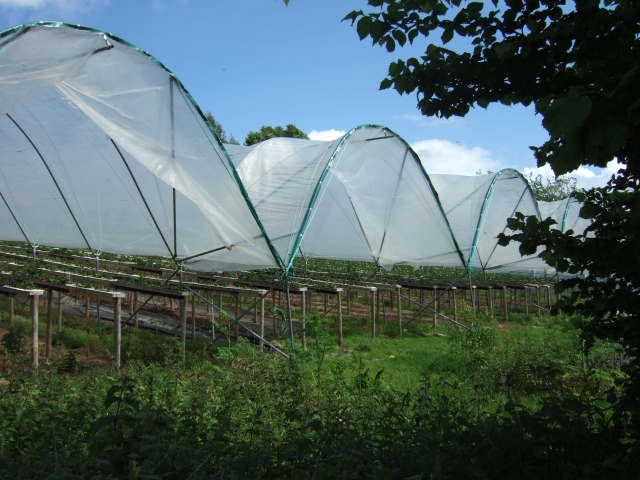 Polytunnels near Ide These polytunnels cover "Table strawberry" plants with the irrigated tables supporting strawberries for ease of picking. The picture is from the Exeter Green Circle footpath.